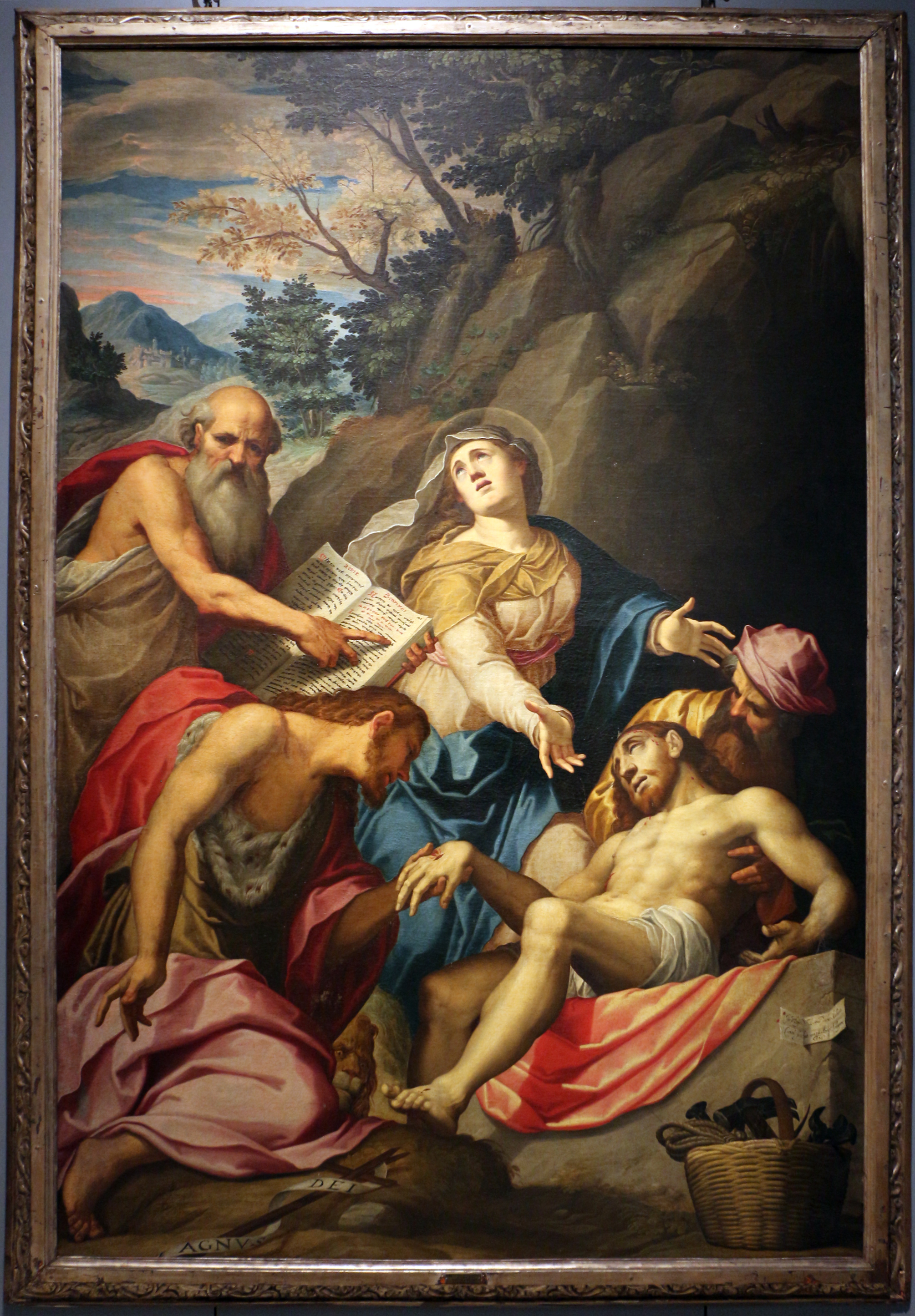 The Deposition